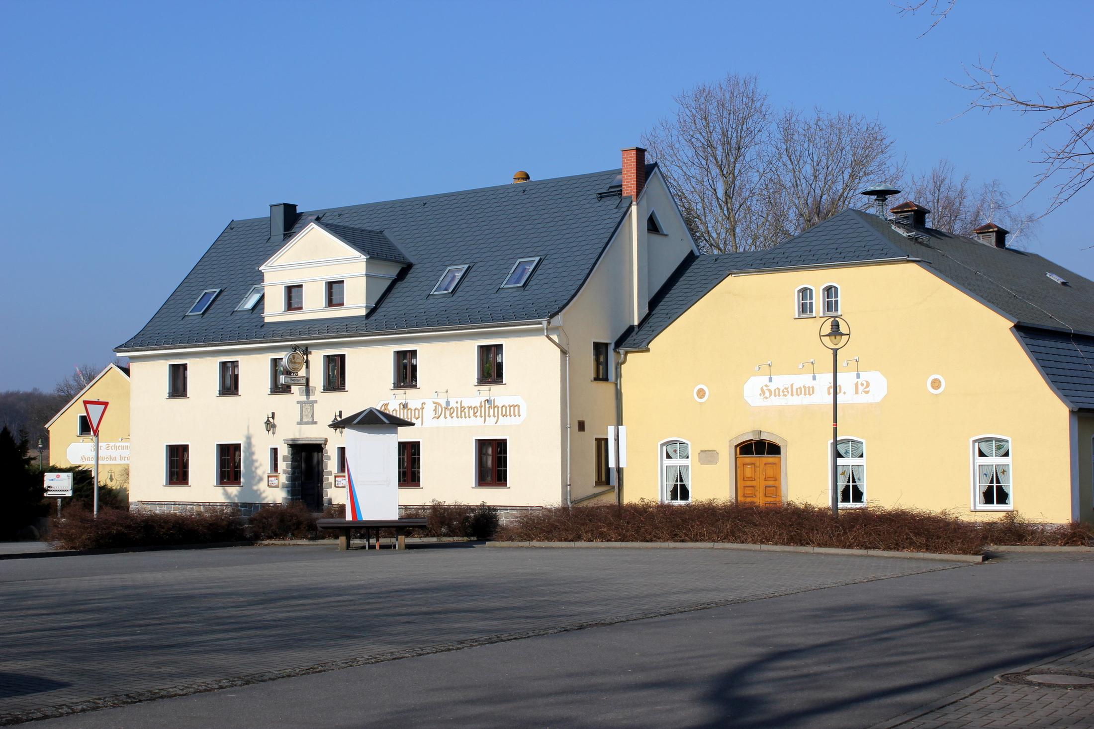 Hornjoserbsce: Haslow; Bizoldec hosćenc.